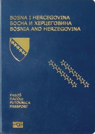 Bosnian Passport Cover